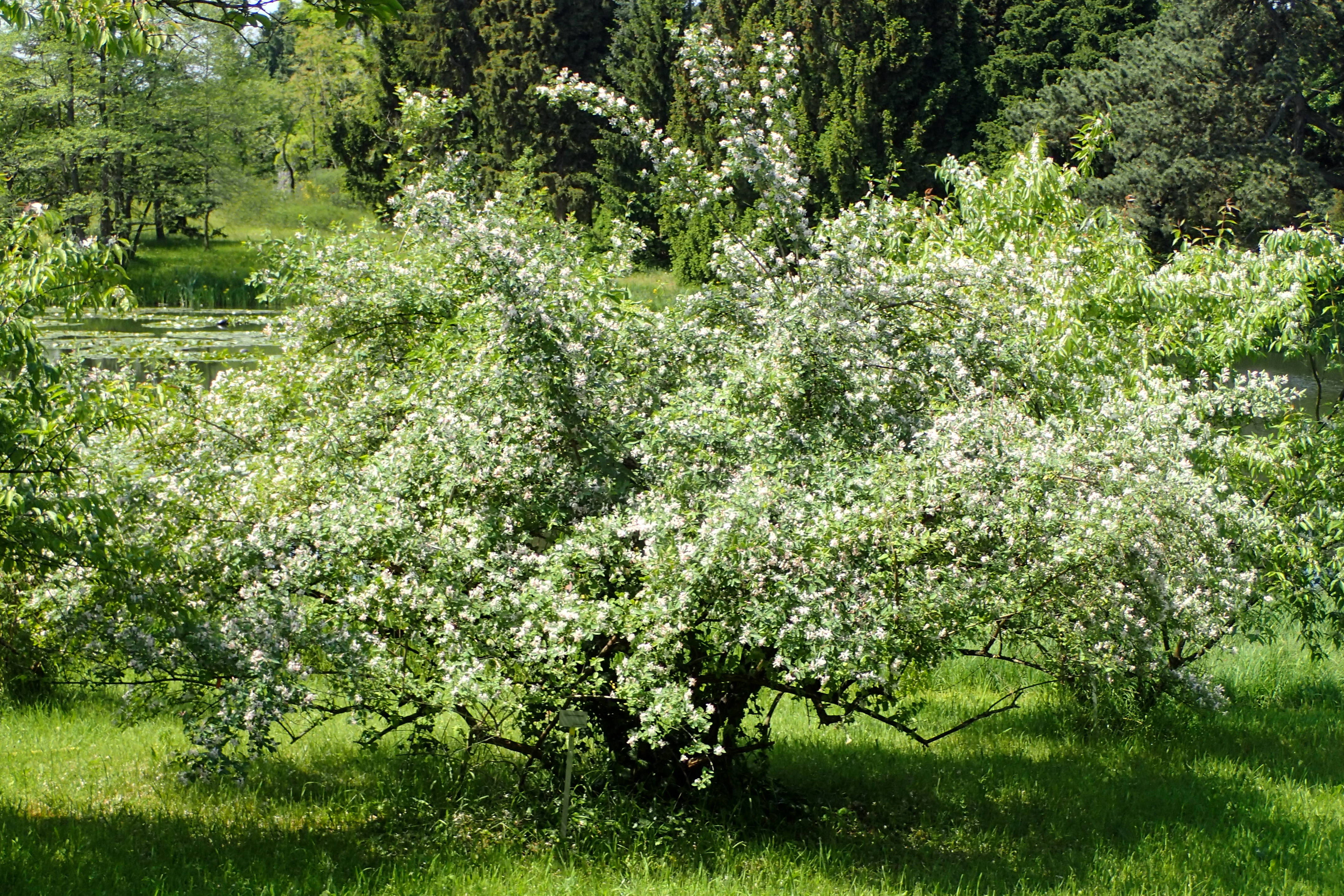 Lonicera korolkowii in the Botanischer Garten, Berlin-Dahlem